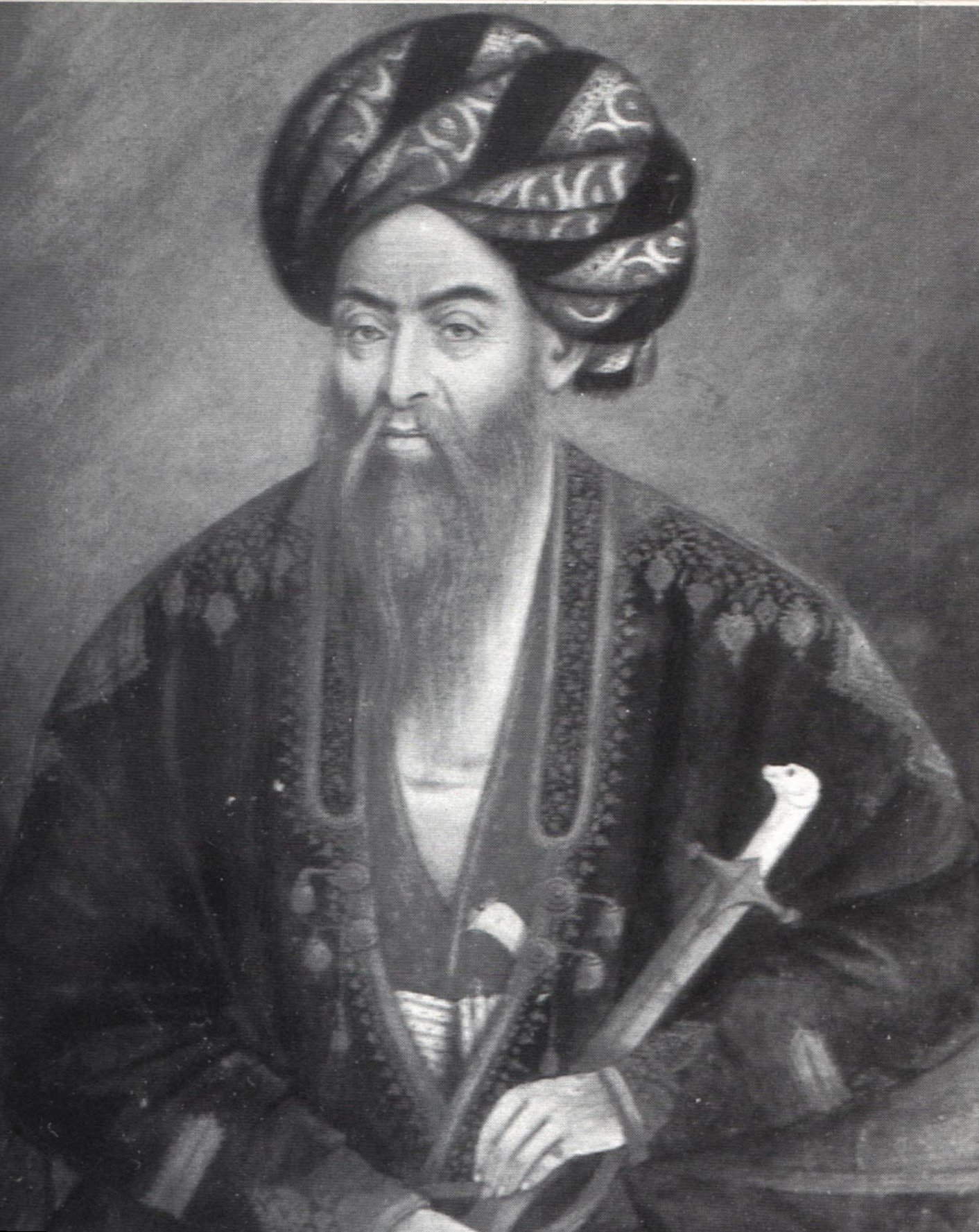 Dost Mohammad Khan, founder of Bhopal state in the early 18th century in British India. This picture undoubtedly comes from a book circa 19th or 20th century. It's title is unknown. The image was uploaded here by a discredited source who obtained it without checking and from a source on the web with no provenance. It has since spread around the world Wide web on misplaced trust. The image may or may not be Dost Mohammad Khan, Nawab of Bhopal. It could be Dost Mohammad Khan, of Caubal, Afghanistan or indeed someone else. Until the original publication from whence it came is revealed, it's identity as Dost Mohammad Khan of Bhopal, must be regarded as highly doubtful. The style of the image is much later than the lifetime of DMK, Nawab of Bhopal